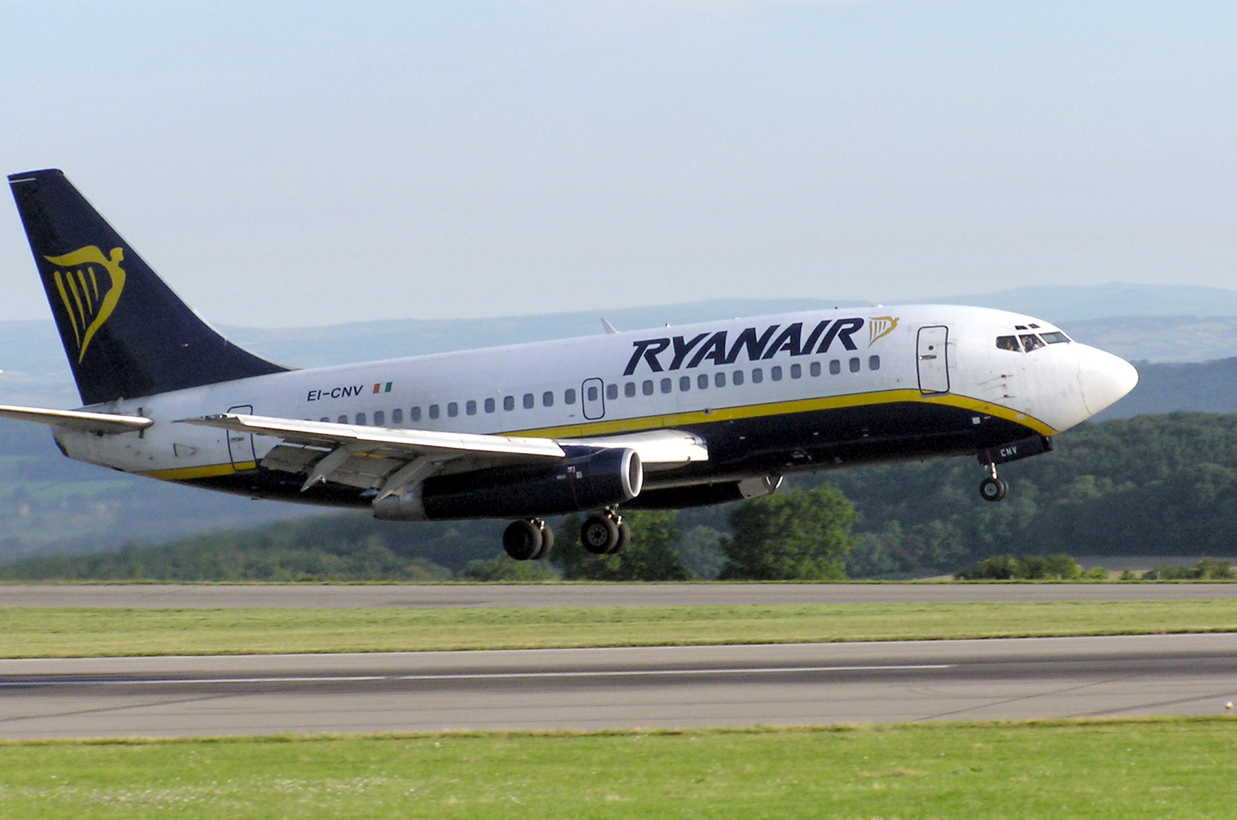 Ryanair Boeing 737-200 landing at Bristol International Airport, Bristol, England. Irish registered as EI-CNV, manufactured 1981.